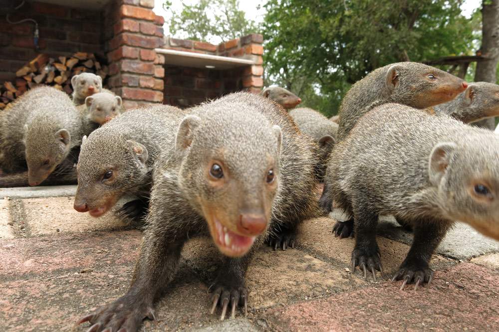 Banded Mongoose, Mungos mungo subsp. grisonax, photographed at Ingwelala, Umbabat Nature Reserve, Mpumalanga, South Africa.